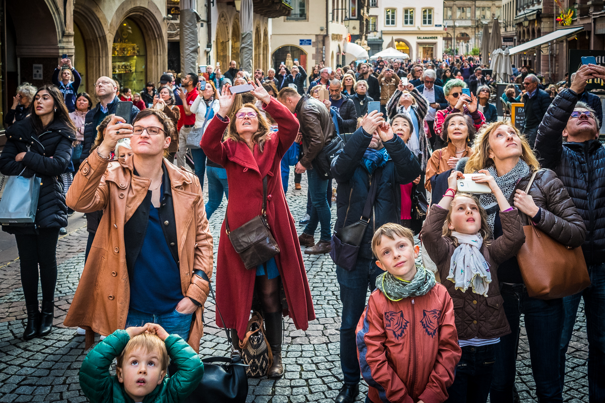 People gathered in front of the Cathedral Notre-Dame in Strasbourg on April 17, 2019 at 6:50pm, during the ringing of bells in solidarity with the Diocese of Paris following the fire of the Cathedral Notre-Dame in Paris